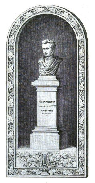 Monument of Joseph Emanuel Hilscher in Leitmeritz (Litoměřice)